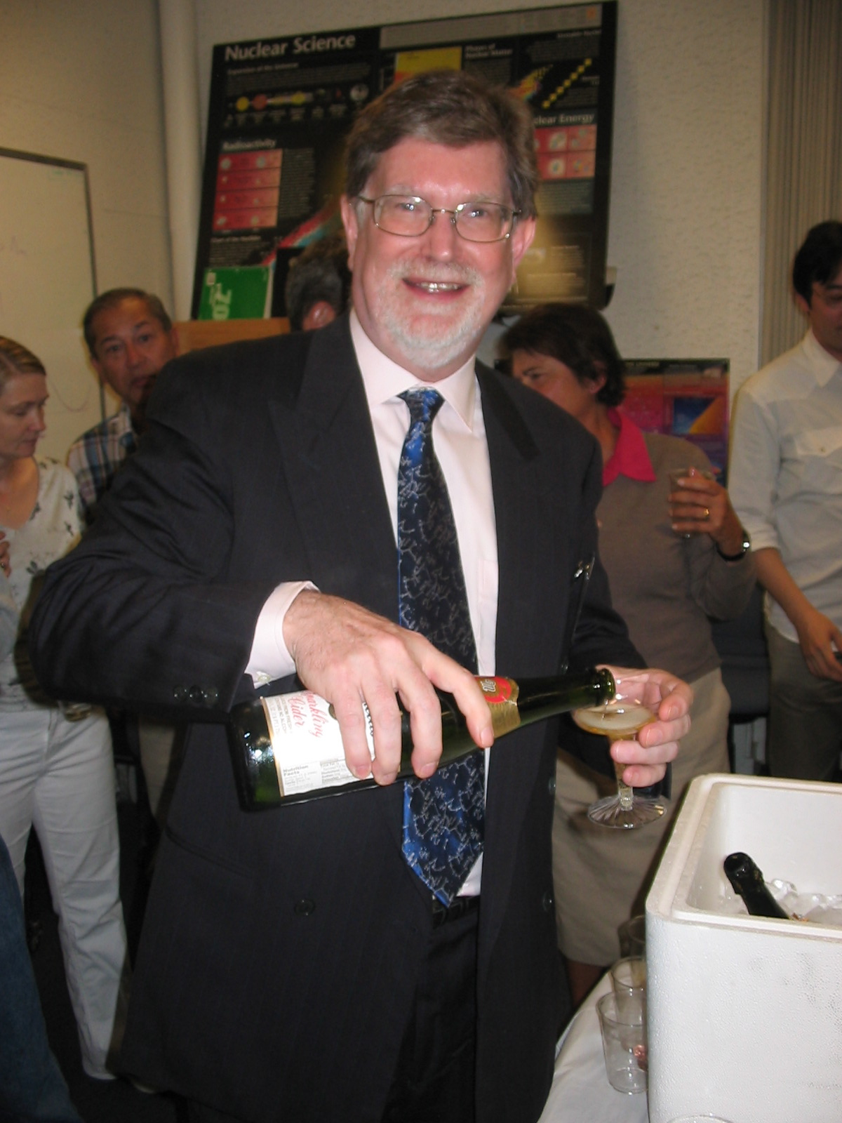 George F. Smoot, winner of the Nobel Prize in Physics, 2006, celebrating with colleagues at Lawrence Berkeley National Laboratory. October 3 2006.